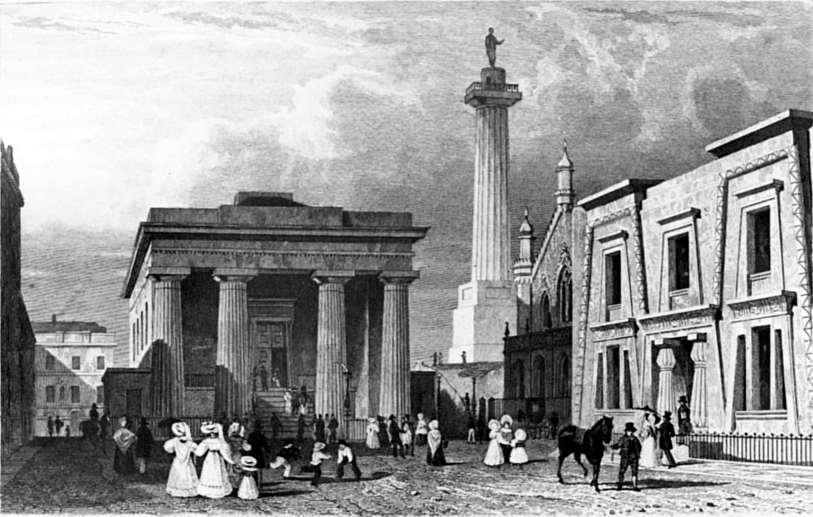 A contemporary print of John Foulston's Town Hall, Column and Library in Devonport, Devon, UK.